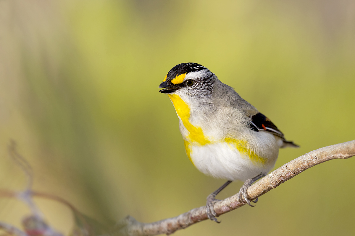 Strangways, Vic. Checking out one of our nesting boxes.